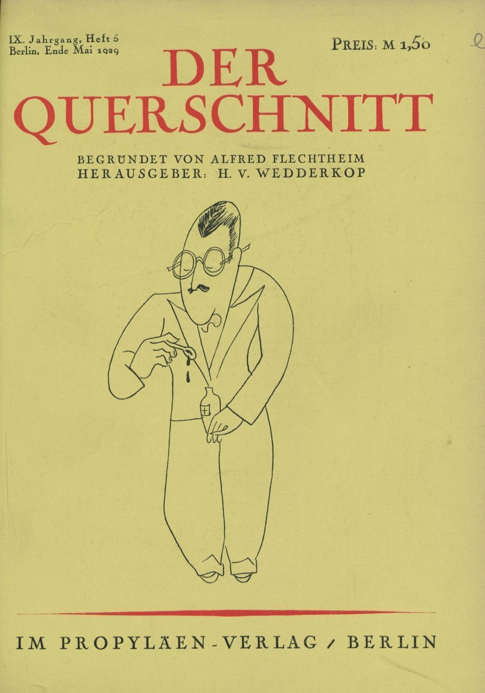 "Der Querschnitt", Mai 1929. Umschlagzeichnung von Ernst Aufseeser [1]